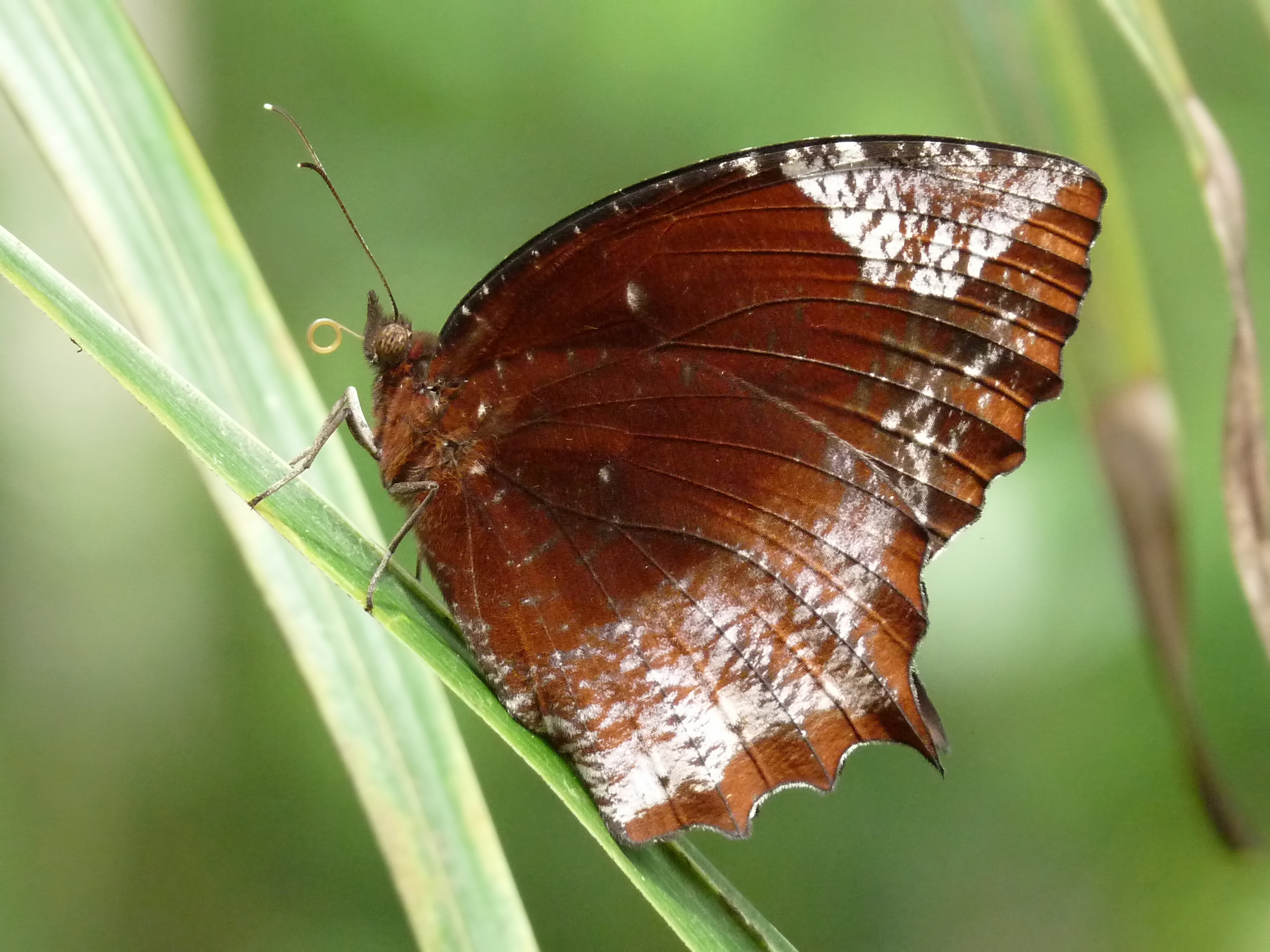 Elymnias caudata, Tailed Palmfly, is a species of satyrid butterfly found in South Asia. This butterfly species is dimorphic, males and females do not look alike. Males exhibit black colored upperside forewings with small blue patches and reddish brown color on upperside hindwings, while the females mimic butterfly species of the genus Danaus. Taken at Kadavoor, Kerala, India.